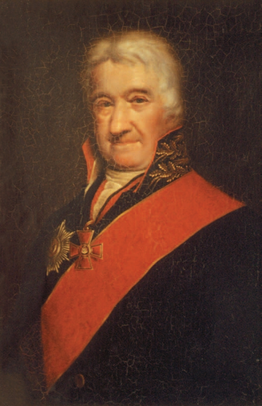 Charles Gascoigne, portrait no earlier than 1804.